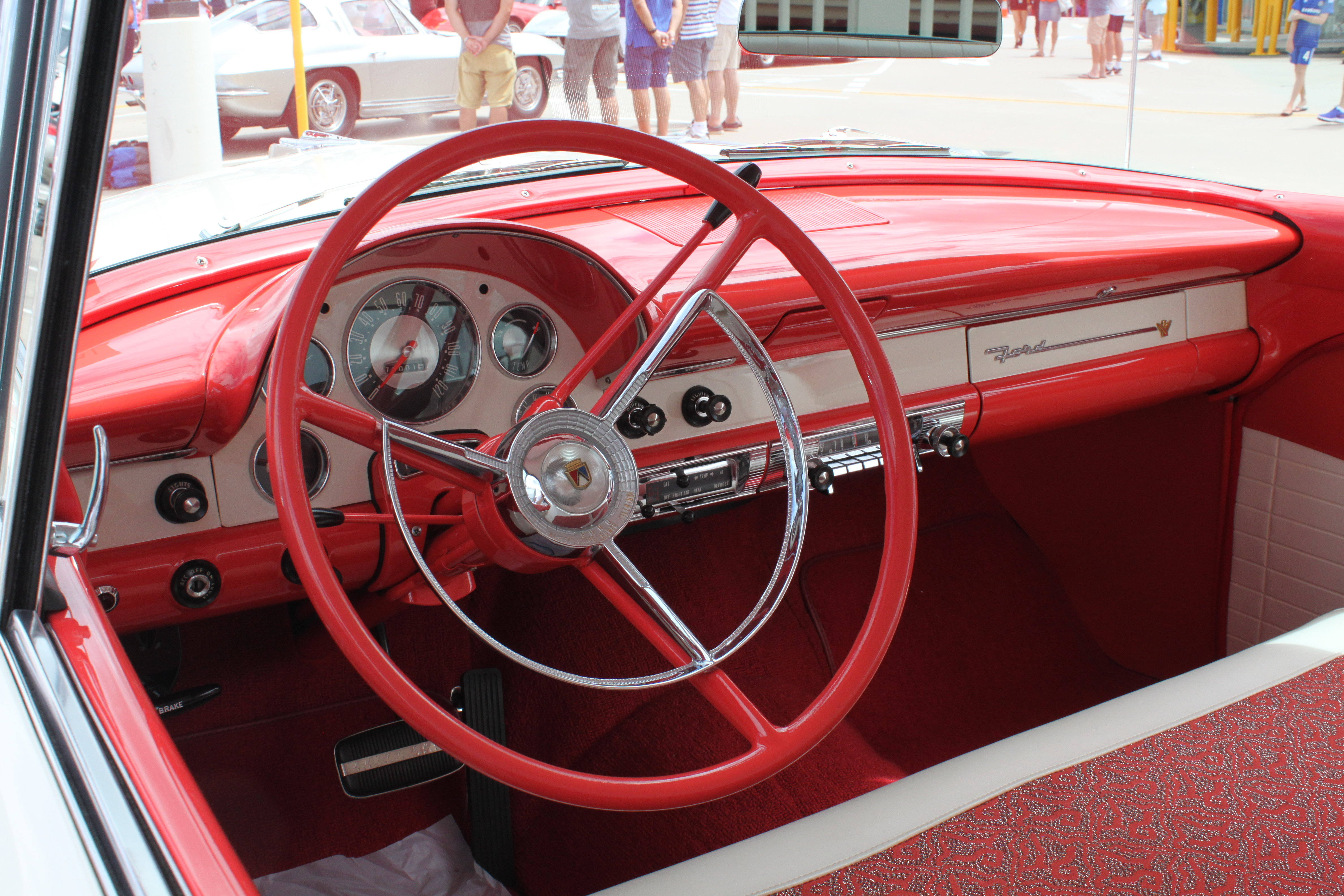 All American Car Show, Castle Hill, NSW January 2016